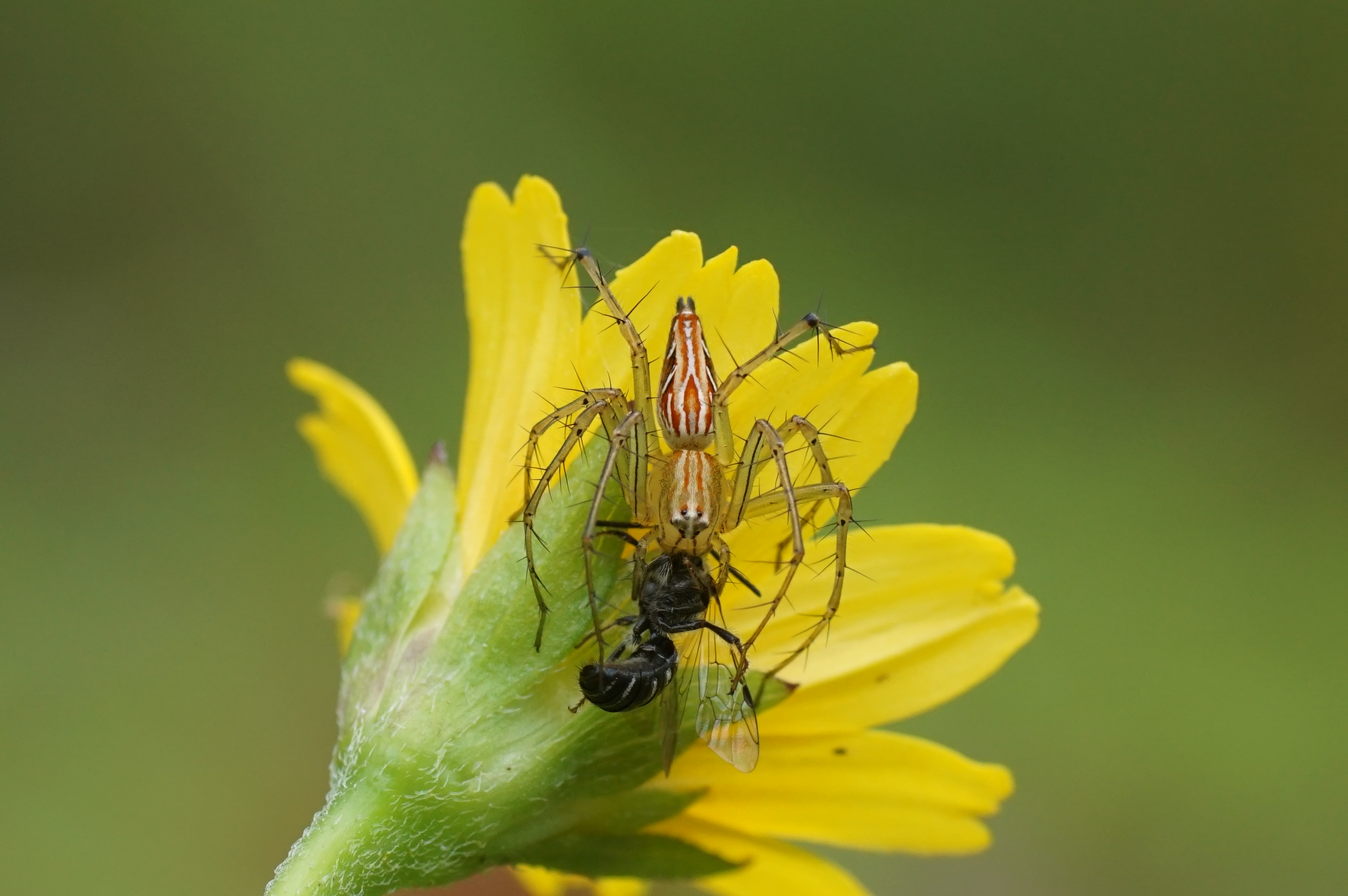 Spider